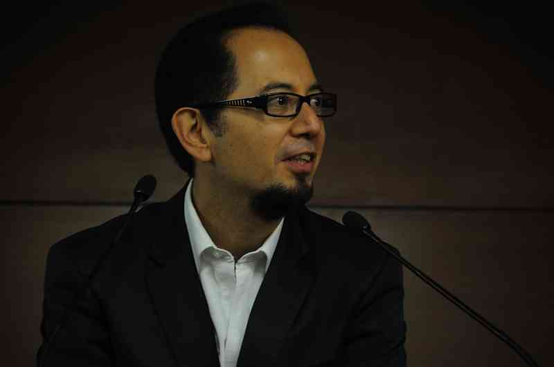 Journalist Alvaro Cueva speaking at the B/VLOGGERS con b y v forum at ITESM Campus Ciudad de Mexico